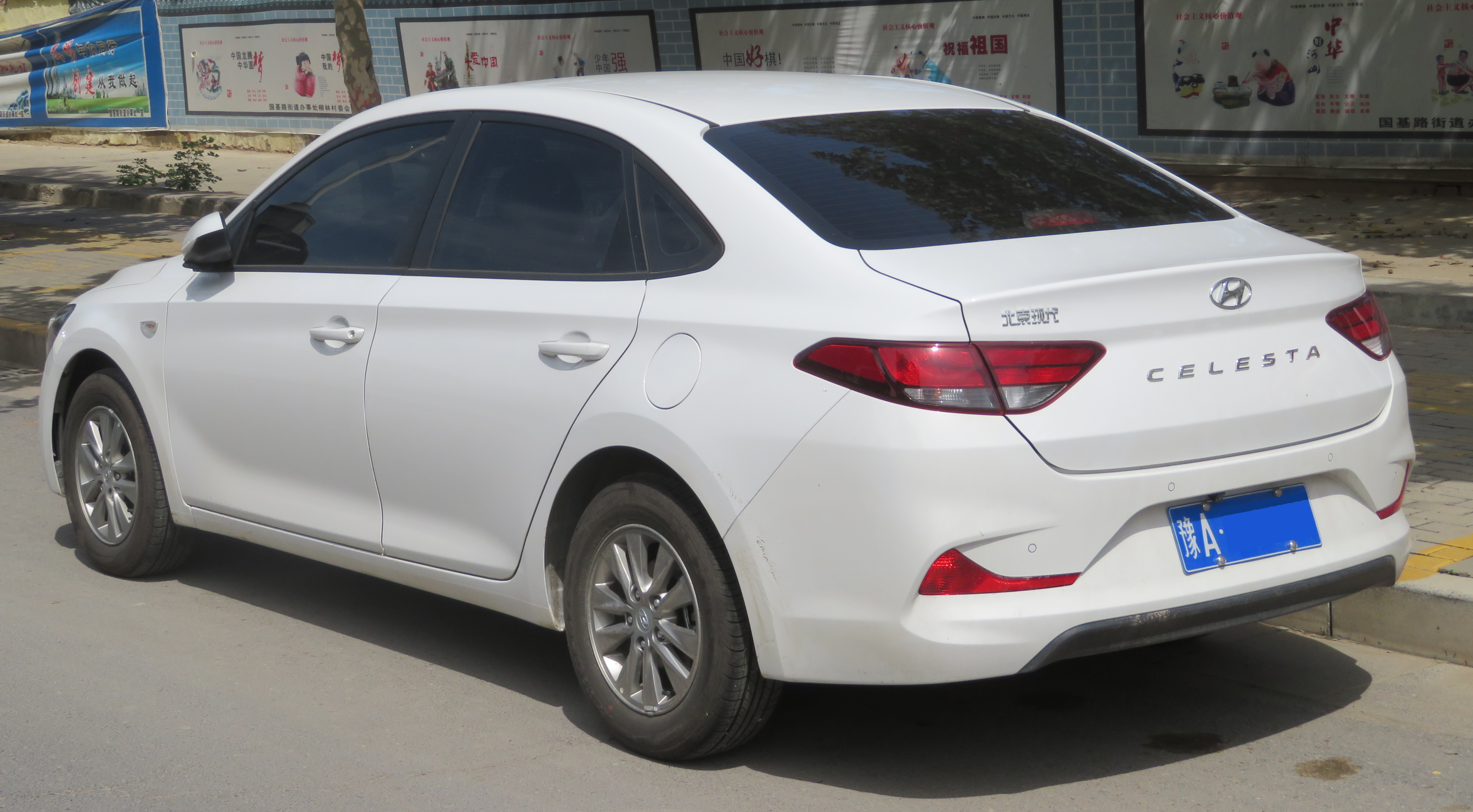 Photographed in Zhengzhou, Henan province, China